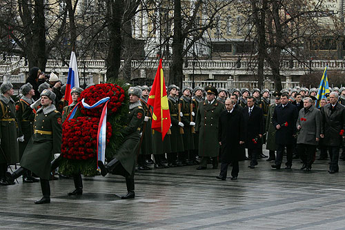 ALEXANDROVSKY GARDEN, MOSCOW. Wreath-laying ceremony at the Tomb of the Unknown Soldier.